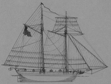 The USS Hamilton, a War of 1812 vessel that served on the upper lakes.